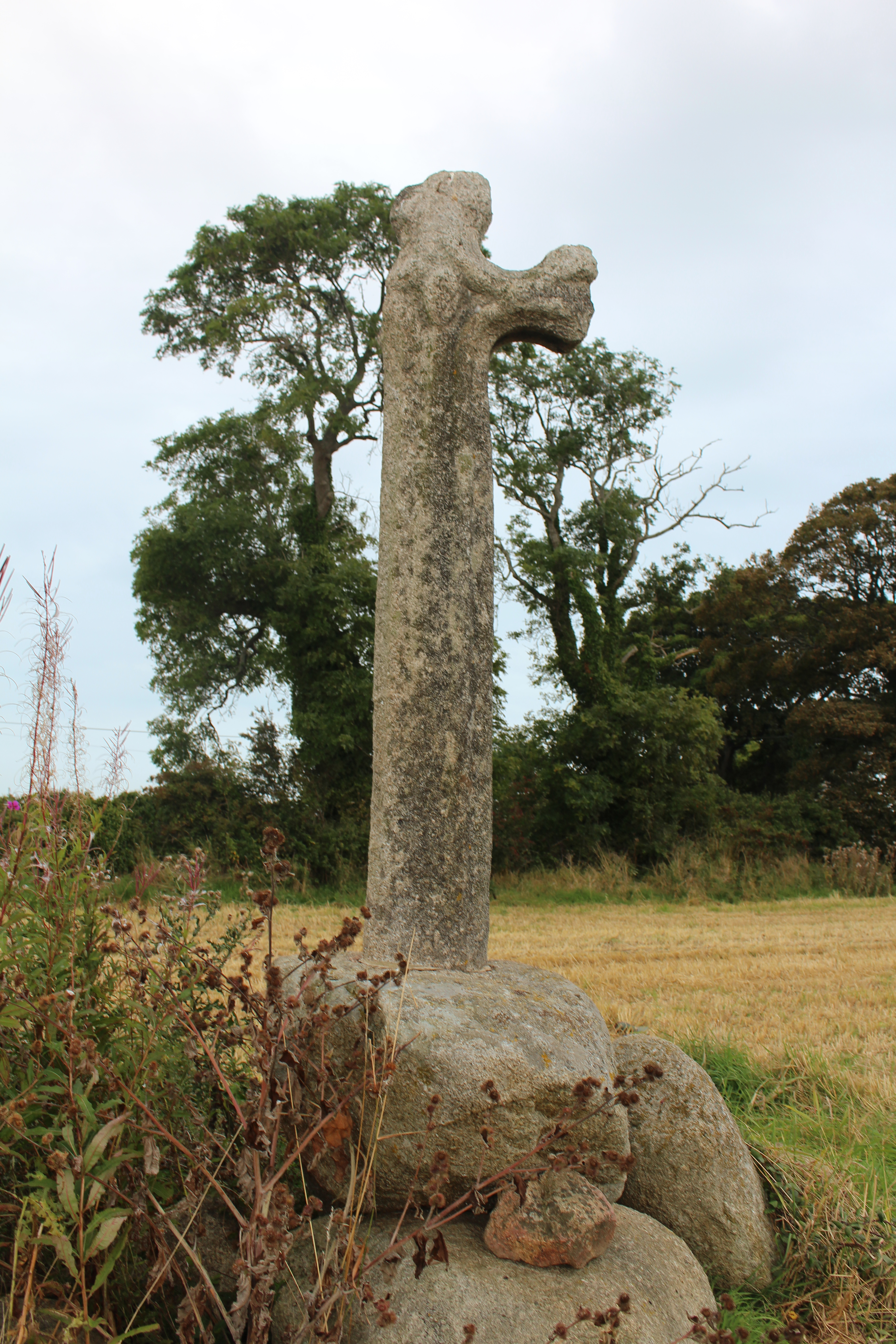 Cross near Tully Church Laughanstown, County Dublin